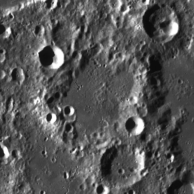 Cajori lunar crater - LROC image